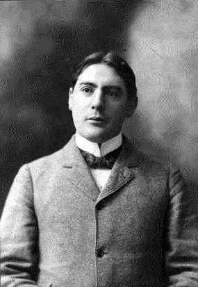 Portrait of Parke H. Davis, college coach during the first years of American football in the USA.